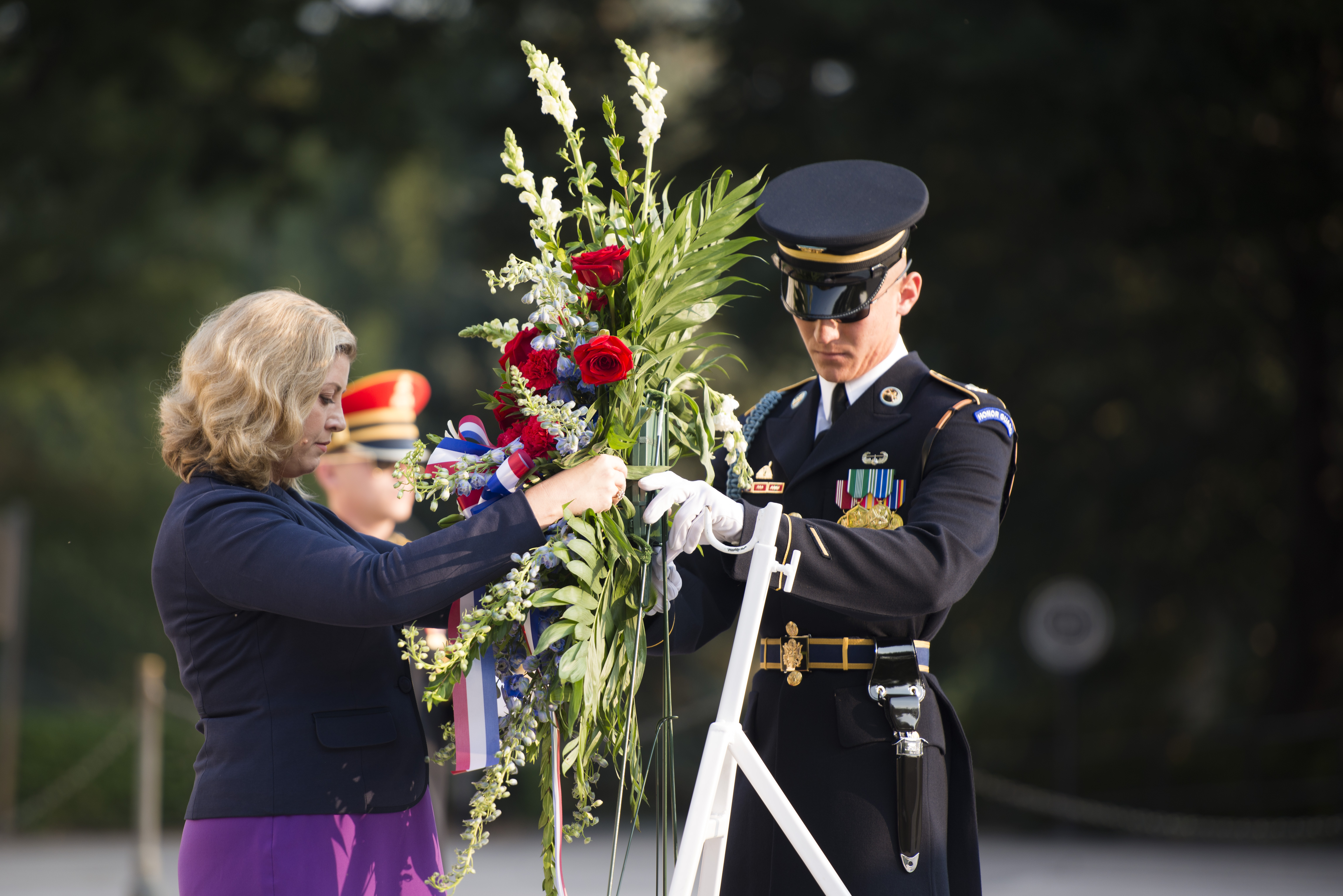 Penny Mordaunt, MP, United Kingdom’s Minister of State for Armed Forces, lays a wreath at the Tomb of the Unknown Soldier at Arlington National Cemetery, Sept. 4, 2015, in Arlington, Va. Mordaunt also observed a Changing of the Guard Ceremony at the tomb. (U.S. Army photo by Rachel Larue/released)